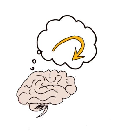 Metacognition and self directed learning